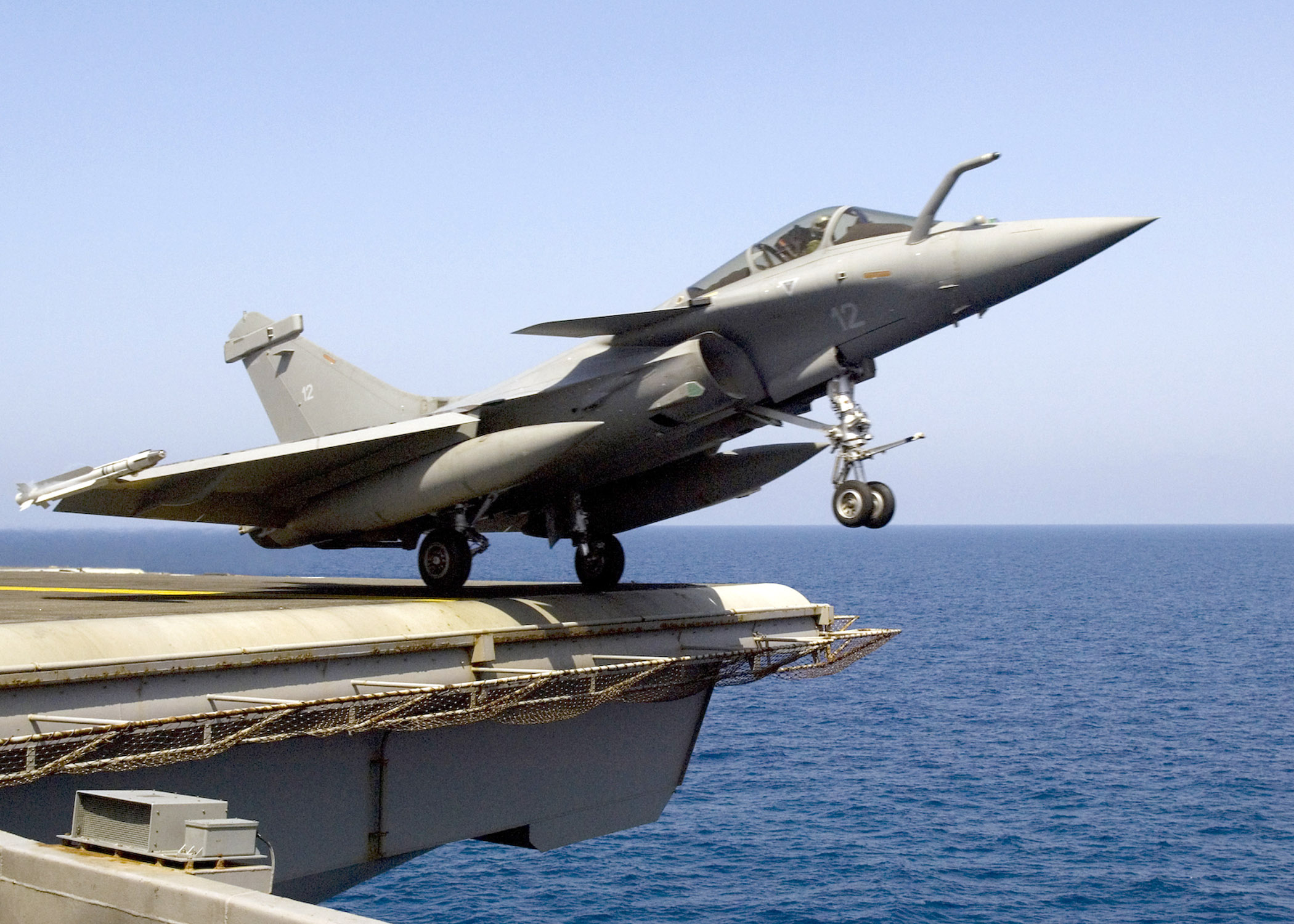 French Rafale M combat aircraft performs a catapult assisted launch from the flight deck of the nuclear-powered aircraft carrier USS Enterprise (CVN 65).